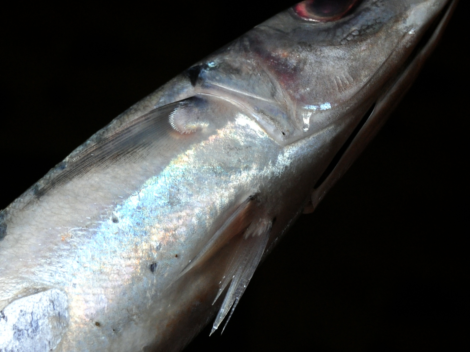 Decapterus macarellus from traditional market in Bogor, West Java, Indonesia. Pelvic region.